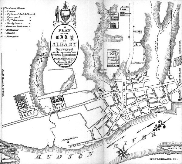 Map made by Simeon De Witt in 1790, used as a base map for the planning of future streets in Albany, NY